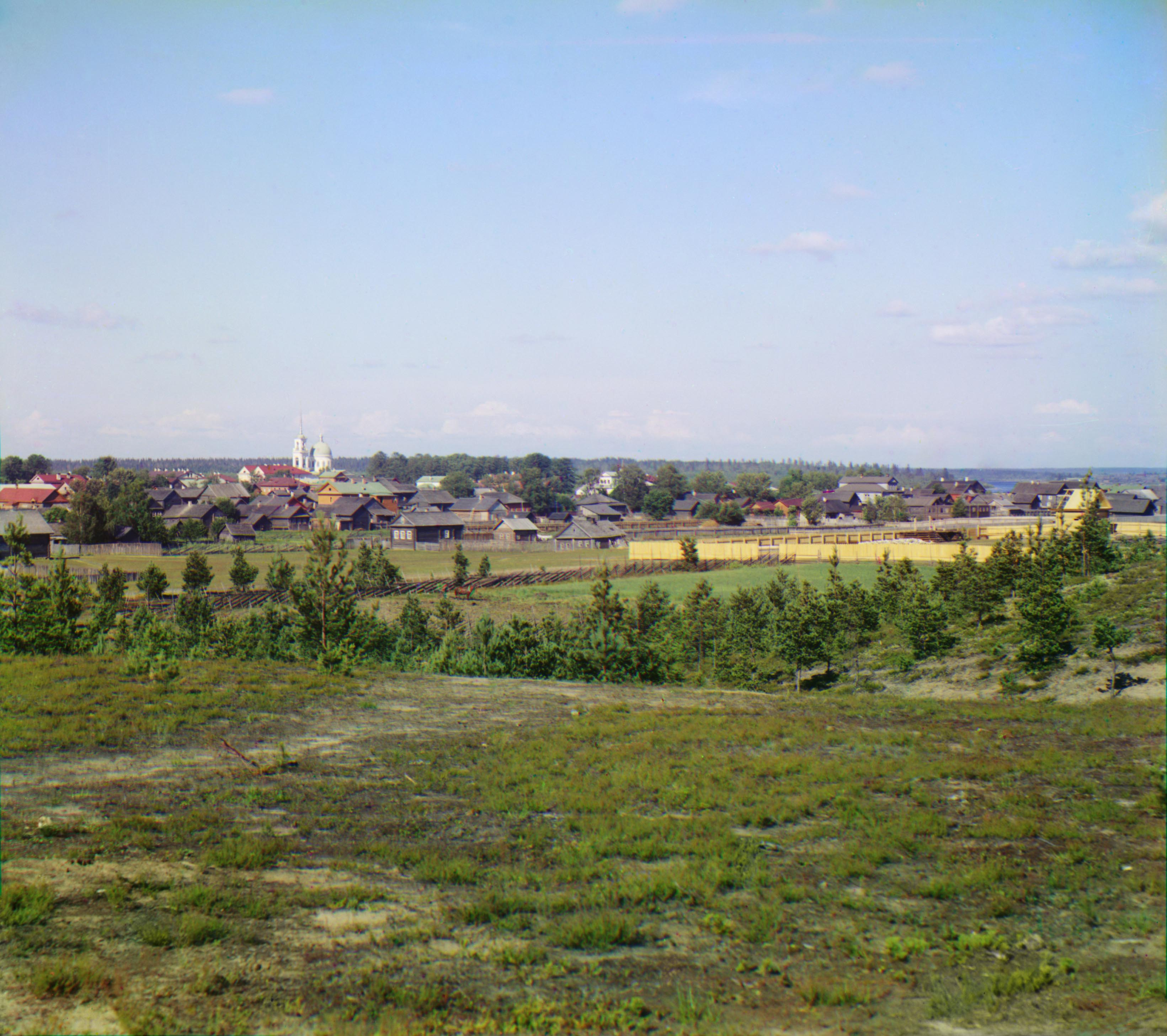 General view of the town of Lodeinoe Pole